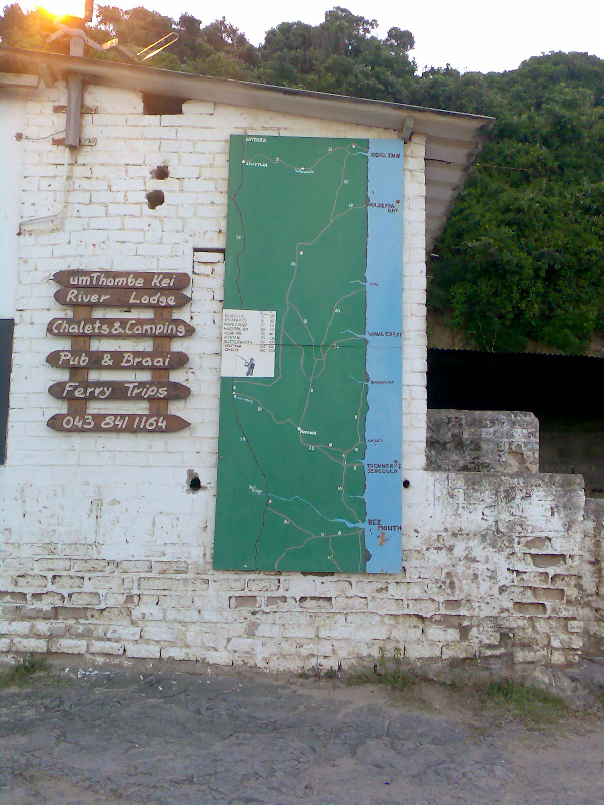 Author: Gregorydavid 08:05, 30 December 2006 (UTC)